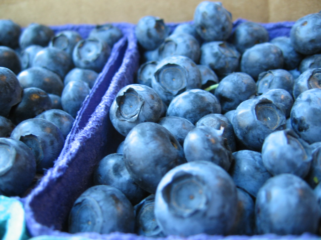 blueberries from portland farmers market, portland or